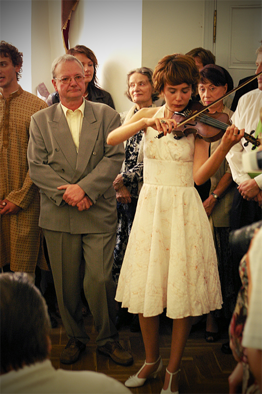 Estonian actor Maarja Mitt.